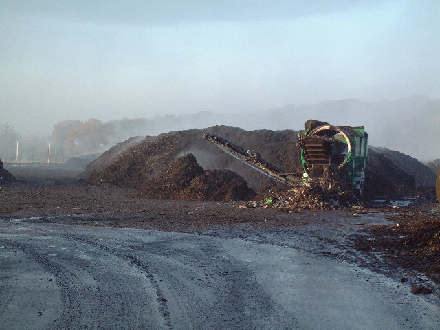 Steaming Heaps. The steam can be seen coming off these organic piles at the West London Composting Limited's maturation site situated on the north side of Newyears Green Lane. In the distance can be seen several posts from the top of which the site is sprayed with a fine water mist.